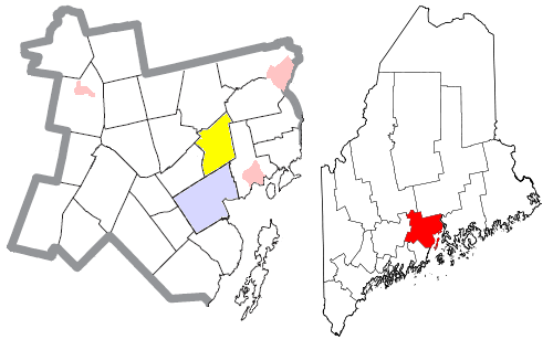 Map of the divisions of Waldo County, Maine, United States, with the town of Swanville highlighted in yellow. The city of Belfast is light blue; other towns are white; and pink areas are census-designated places within towns.